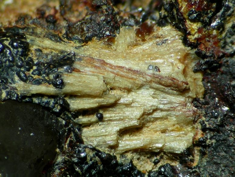 Allanpringite Locality: Mark Mine, Essershausen, Weilburg, Wetzlar, Hesse, Germany Field of view 4 mm. Specimen and photo Leon Hupperichs.